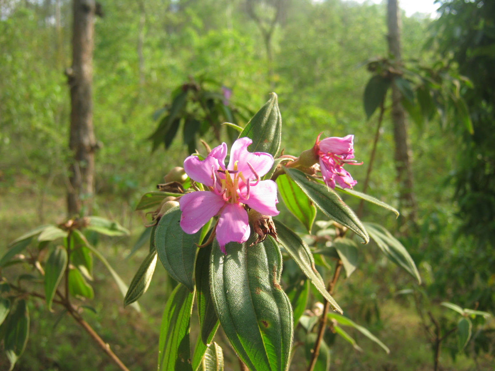 A native plant in flower, in Nepal — of the Melastomataceae family, produces edible fruit.